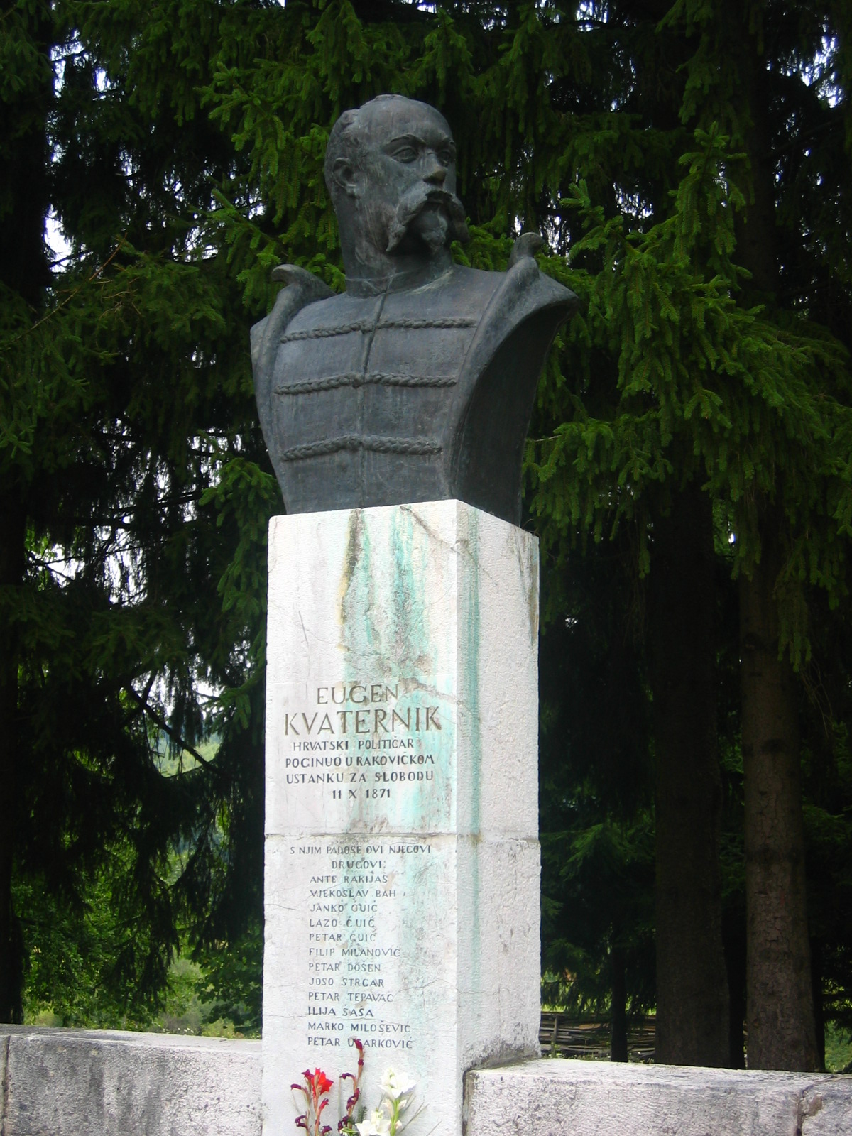 Statue of Eugen Kvaternik in Rakovica, Croatia